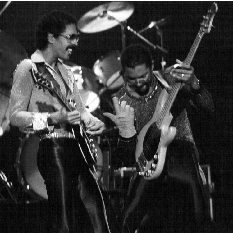 The Brothers Johnson Band in Paris, France